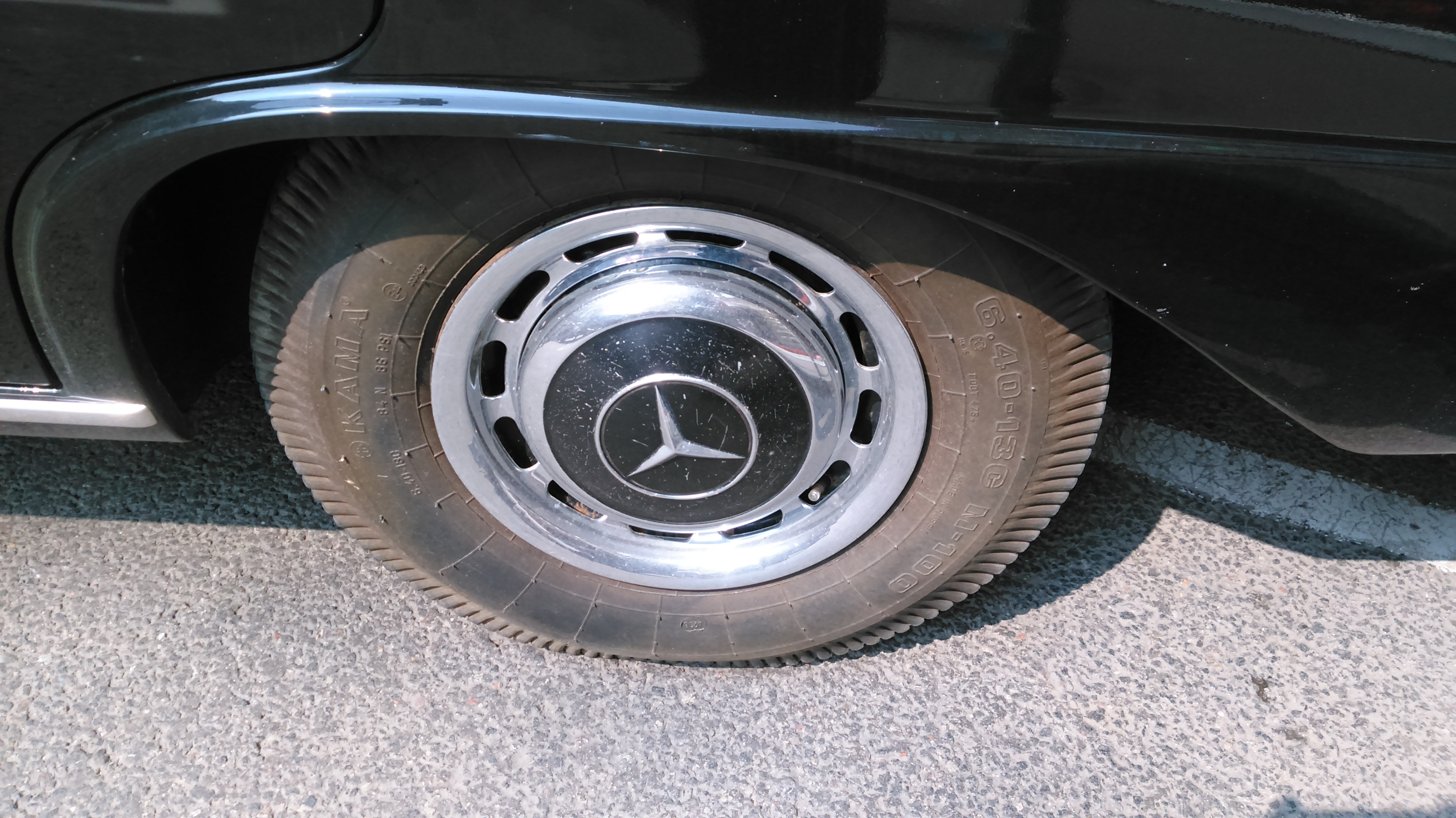 Soviet-made 13 inch tire on Mercedes-Benz W111